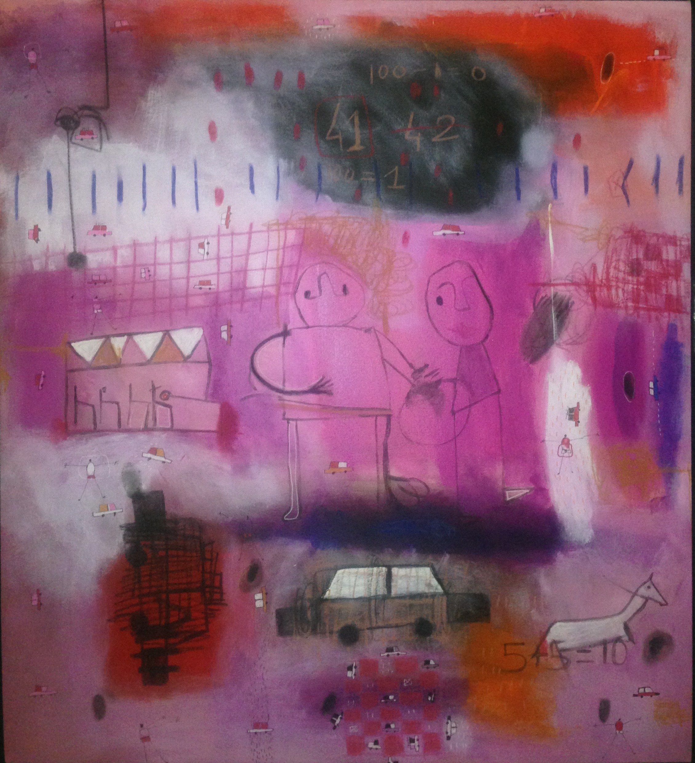 Pink canvas